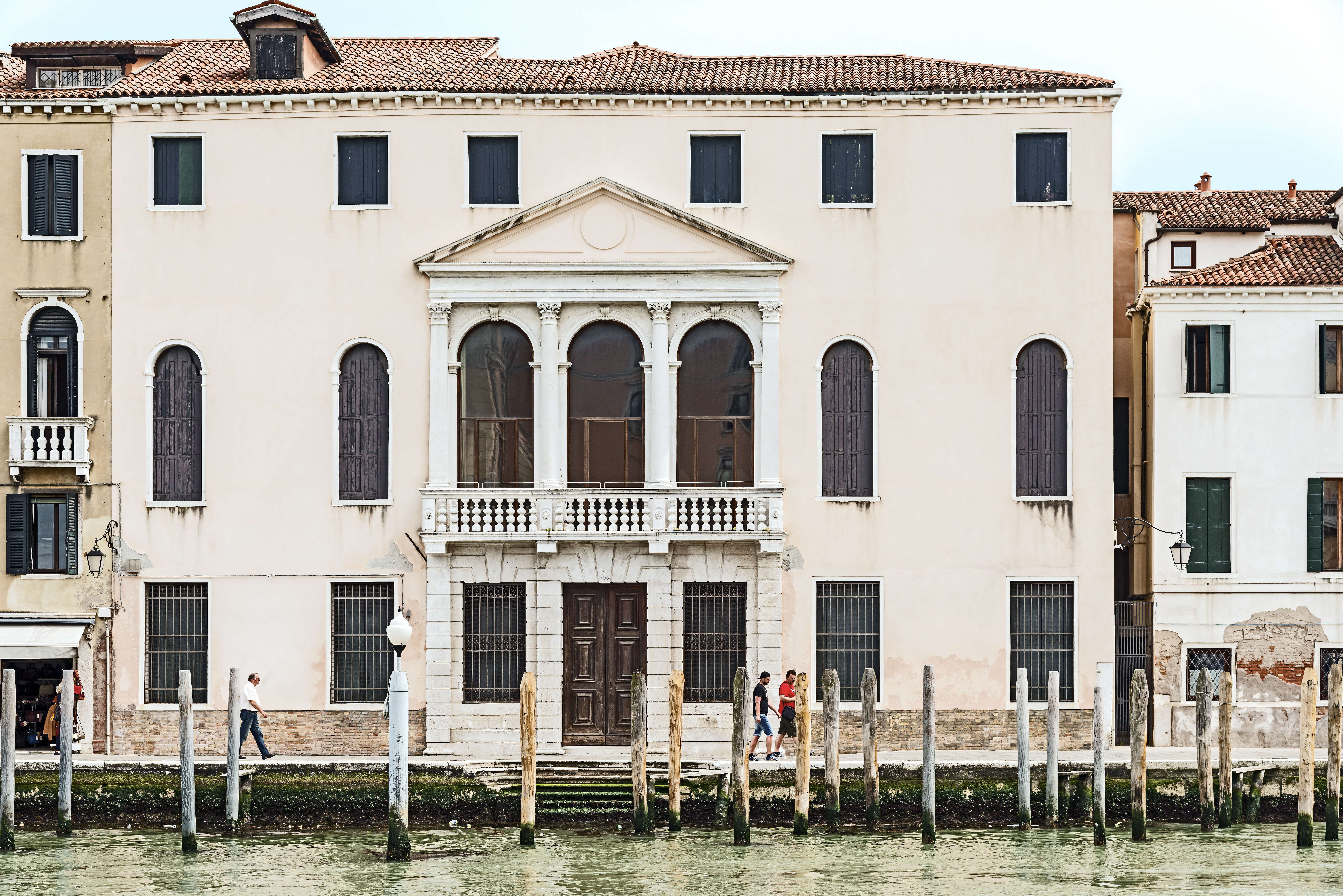 Facade of Palazzo Emo Diedo (Venice) in Venice on Grand Canal.